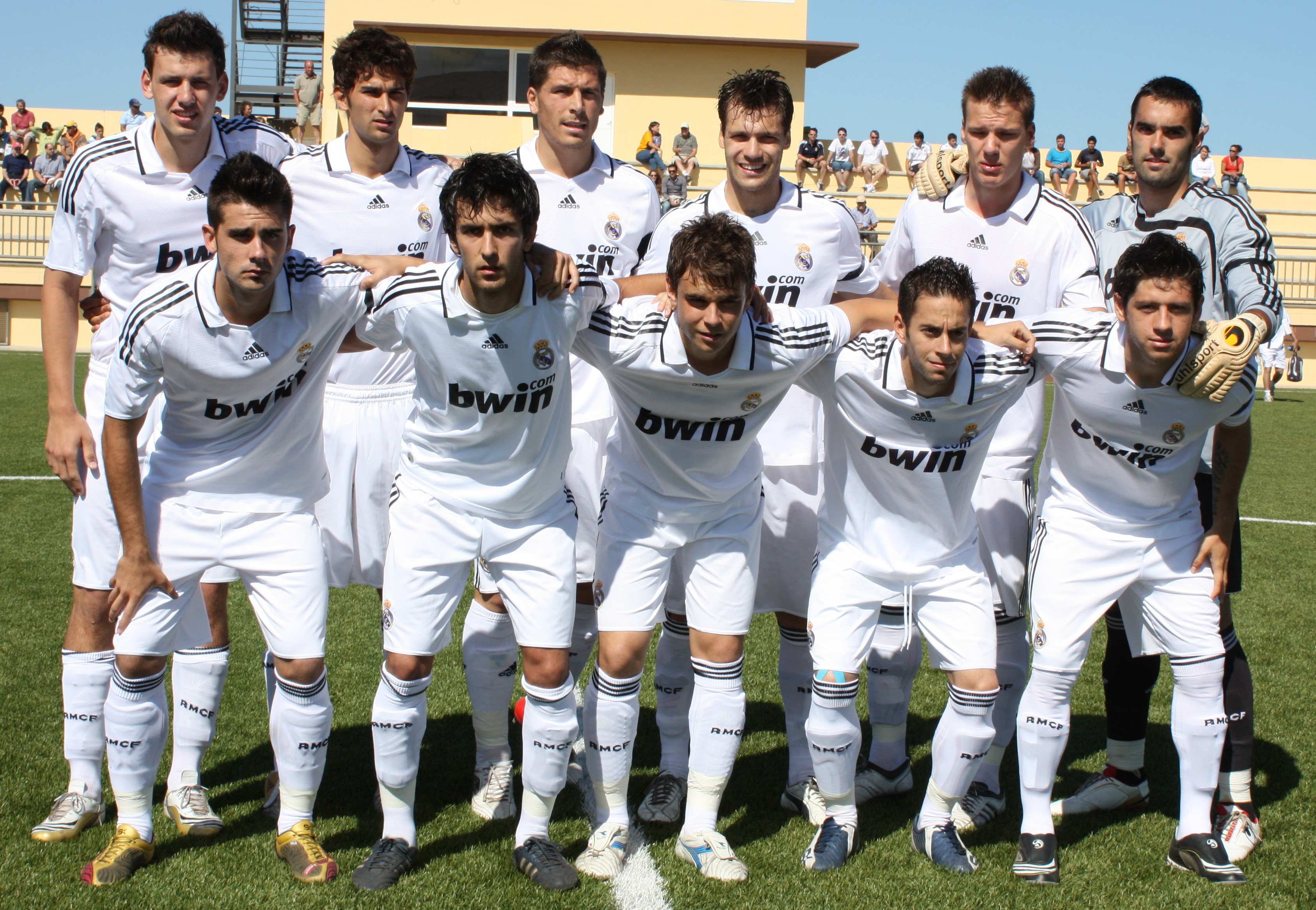 Real Madrid B who play in the Segunda B divison of the Spanish League